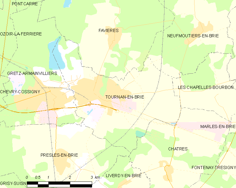 Map of French municipality Tournan-en-Brie